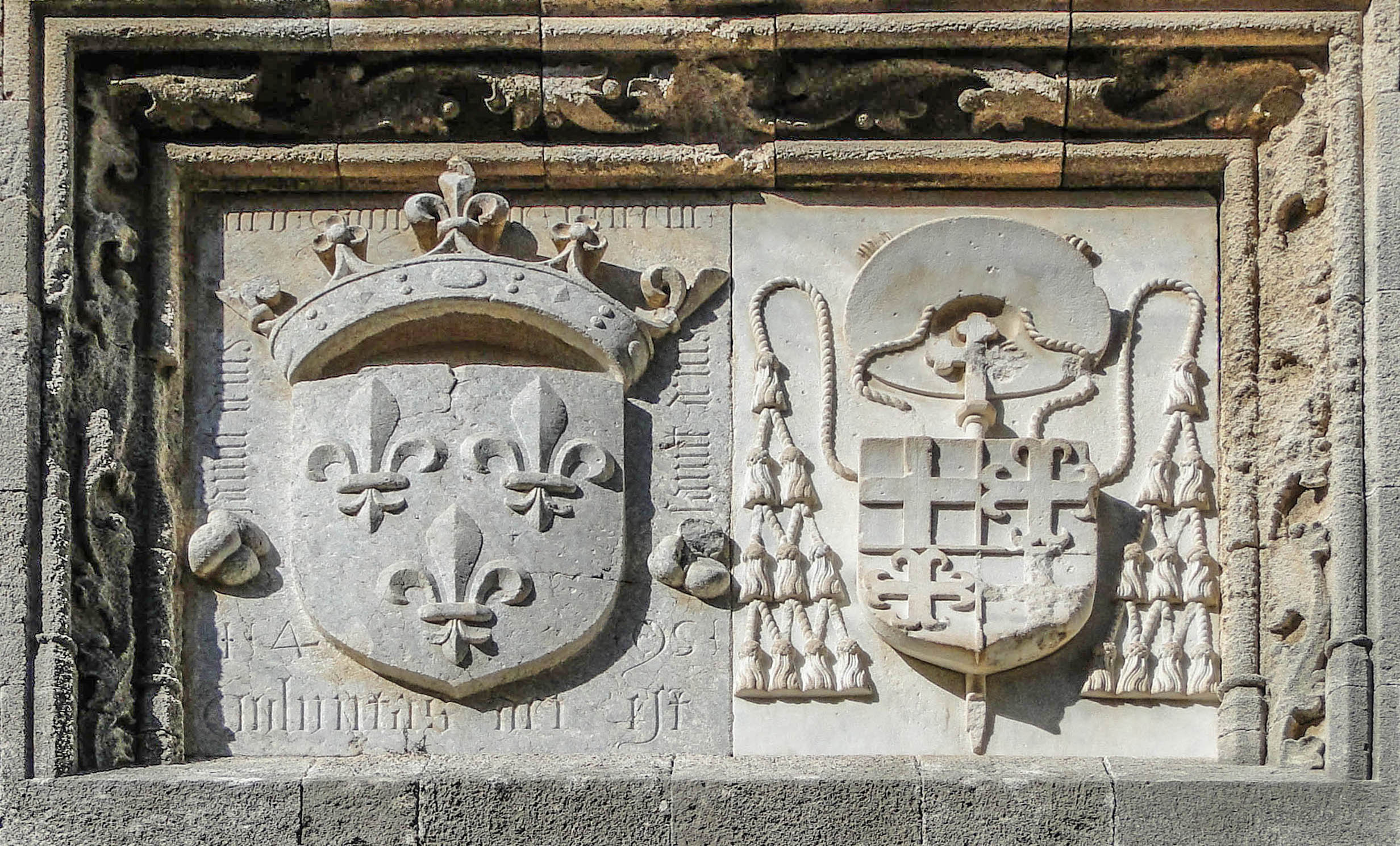 Coats of arms of France (left) and Pierre d'Aubusson (right) on the Auberge of the lingua of France, Street of Knights, Rhodes, Greece